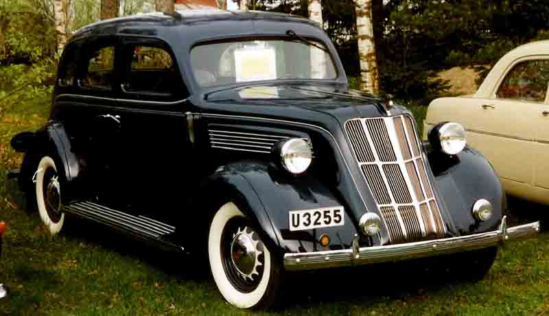 Nash 3640 400 4-Door Sedan 1936